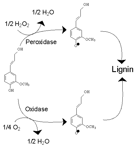 This is a schematic representation of the polymerisation of coniferyl alcohol to lignin.